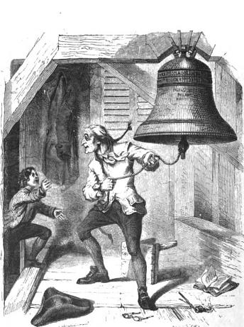 Depiction of the story of the bellringer ringing the Liberty Bell upon being told of American independence.